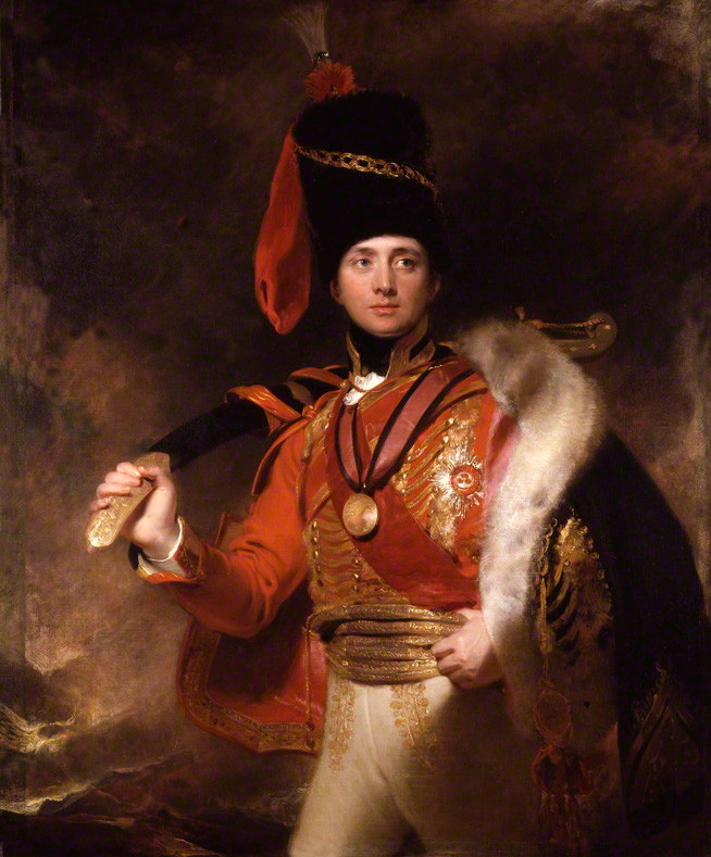 Lieutenant General the Hon. Charles William (Vane-)Stewart (later 3rd Marquess of Londonderry) in hussar uniform, wearing the Army Gold Medal which he was awarded in 1810 for the Battle of Talavera, and the Star and Ribbon of the Order of the Bath. There are two versions of this portrait, the "Camden version" (this painting) and the "Londonderry version" (now in the National Gallery, London). The Londonderry version shows less of the figure, while the Camden version is inscribed "Thos. Lawrence Pinx. 1812" on the edge of the cloak and has the star and ribbon of the Bath which Stewart received in 1813 (added later, with underpainting now showing through the ribbon). There is some confusion in the literature about which version of the painting is the one being referred to (especially since Stewart sat for Lawrence for different portraits painted in 1811 and 1818). It was probably the Camden version which was exhibited at the RA in 1813, the Londonderry version being painted afterwards.